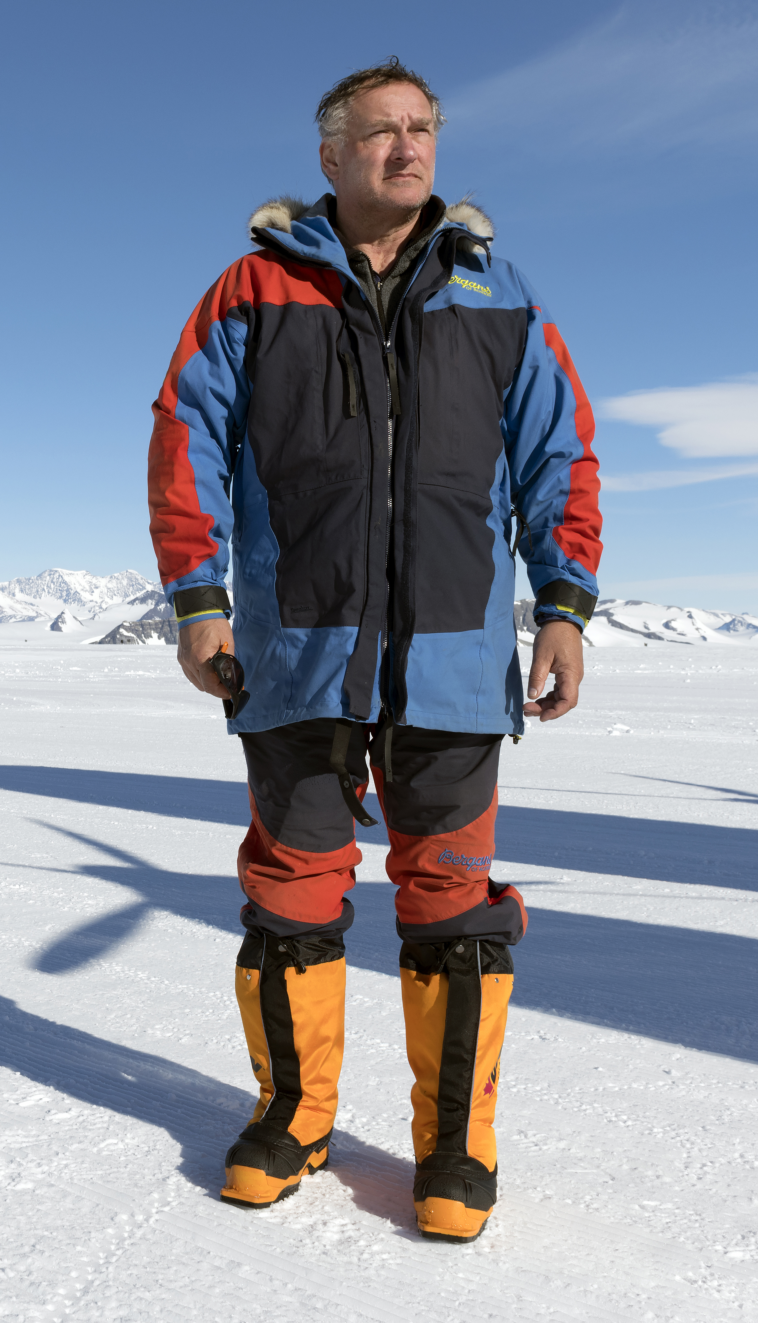 British adventurer Sir David Hempleman-Adams in Antarctica, January 2018